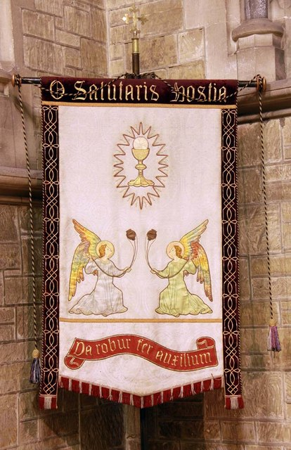 All Saints, Roffey, Sussex - Banner